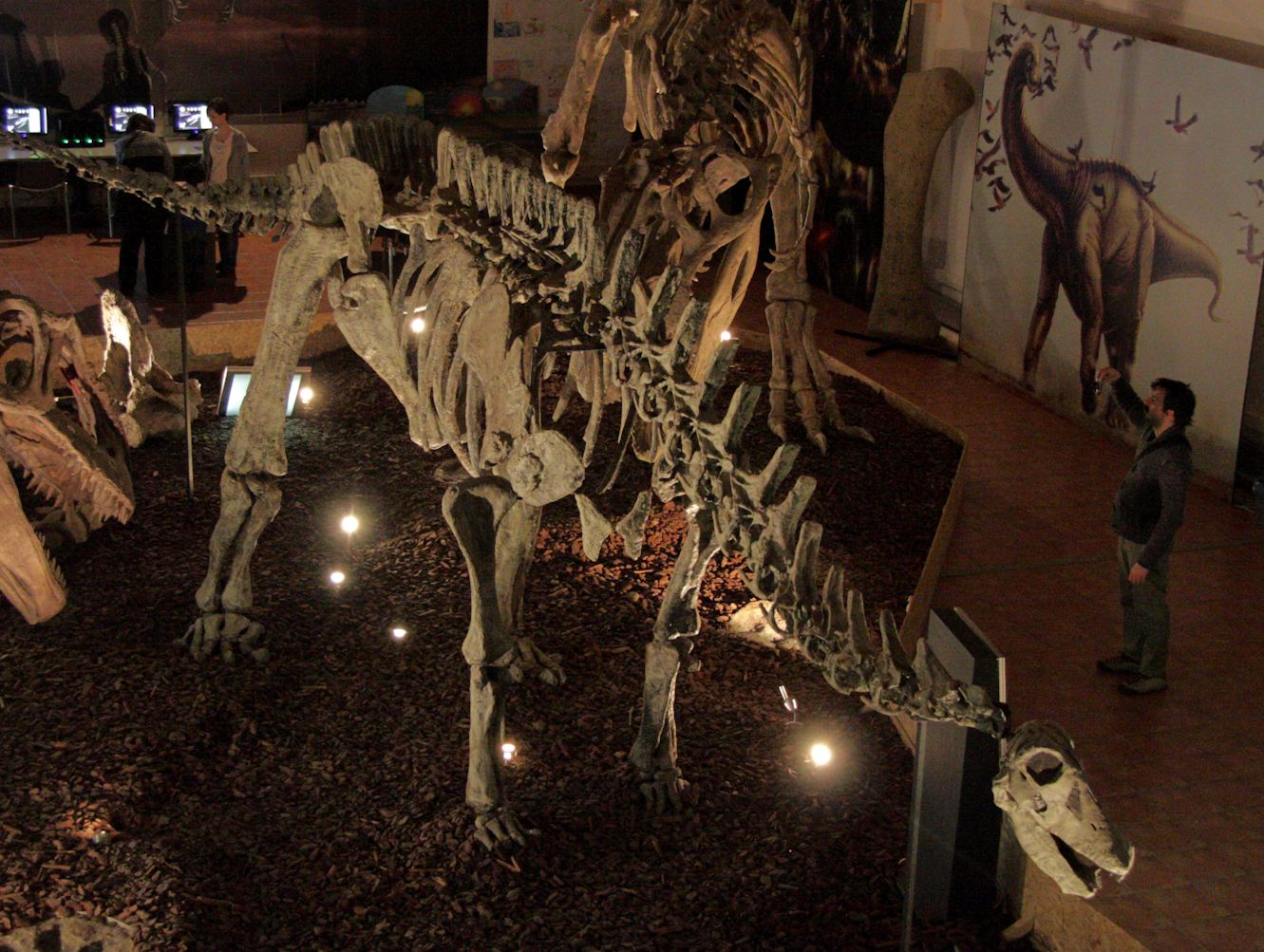 A skeleton restoration of Limaysaurus at an exhibition in National Technical University of Athens, Greece